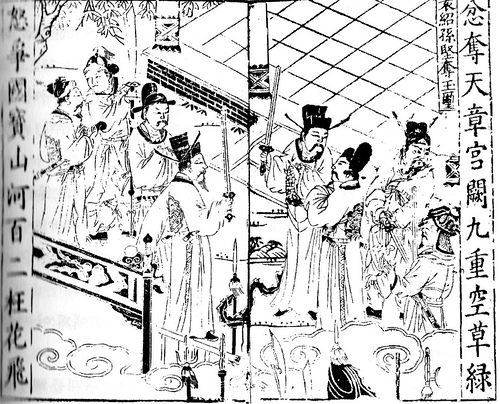 A Qing Dynasty illustration of a quarrel between Yuan Shao and Sun Jian over the Imperial Seal of China.